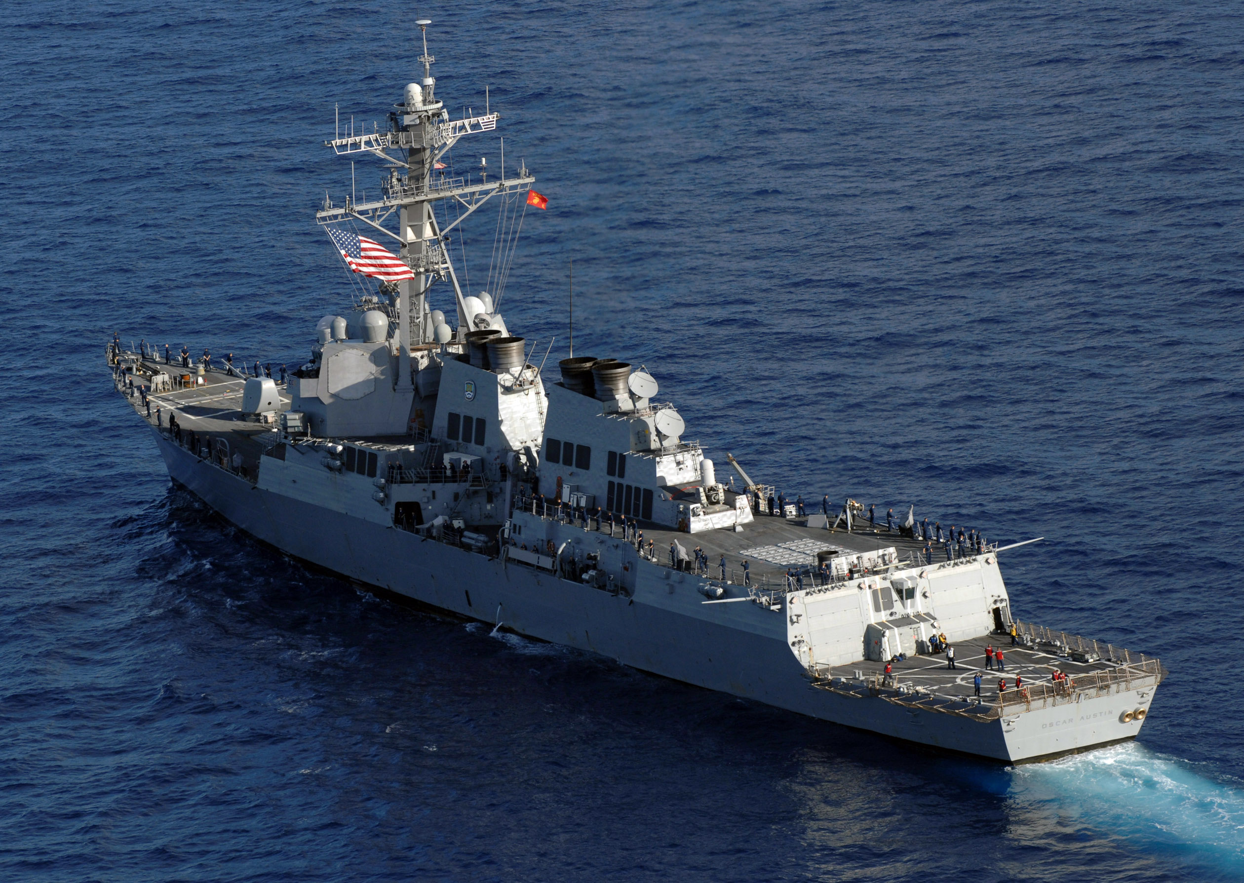 Guided-missile destroyer USS Oscar Austin (DDG 79) sails next to USS Harry S. Truman during a close maneuvering exercise in the Atlantic Ocean. Truman is part of Carrier Strike Group (CSG) 10 and is en route to the Central Command area of responsibility as part of the ongoing rotation to support maritime security operations in the region.